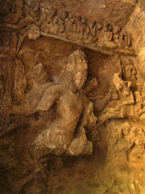 Shiva as Bhairava slaying the demon Andaka, elephanta